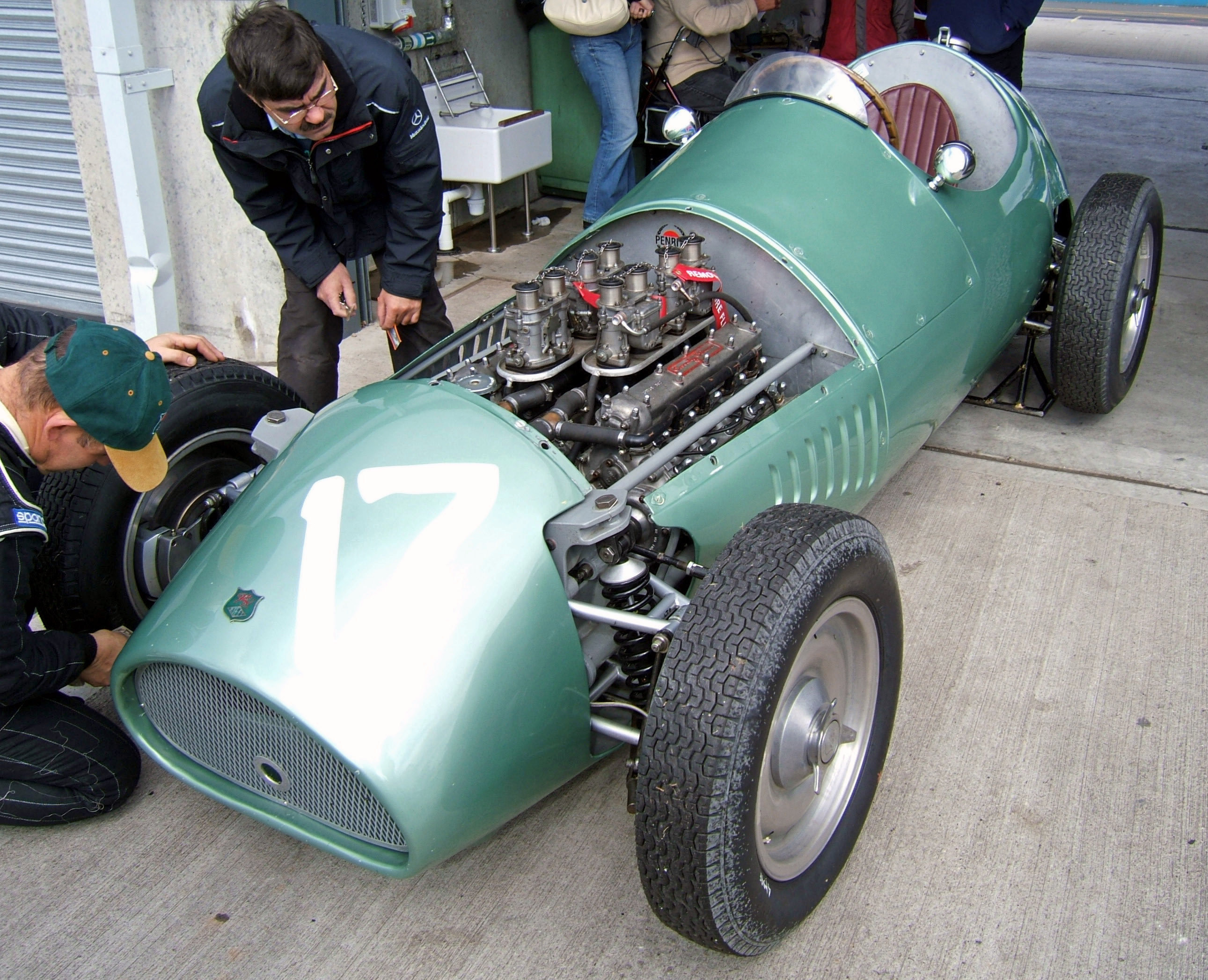 The unique Kieft GP car's Coventry Climax "Godiva" V8 engine receives attention in the pit garages during the VSCC SeeRed race meeting, Donington Park, September 2007.